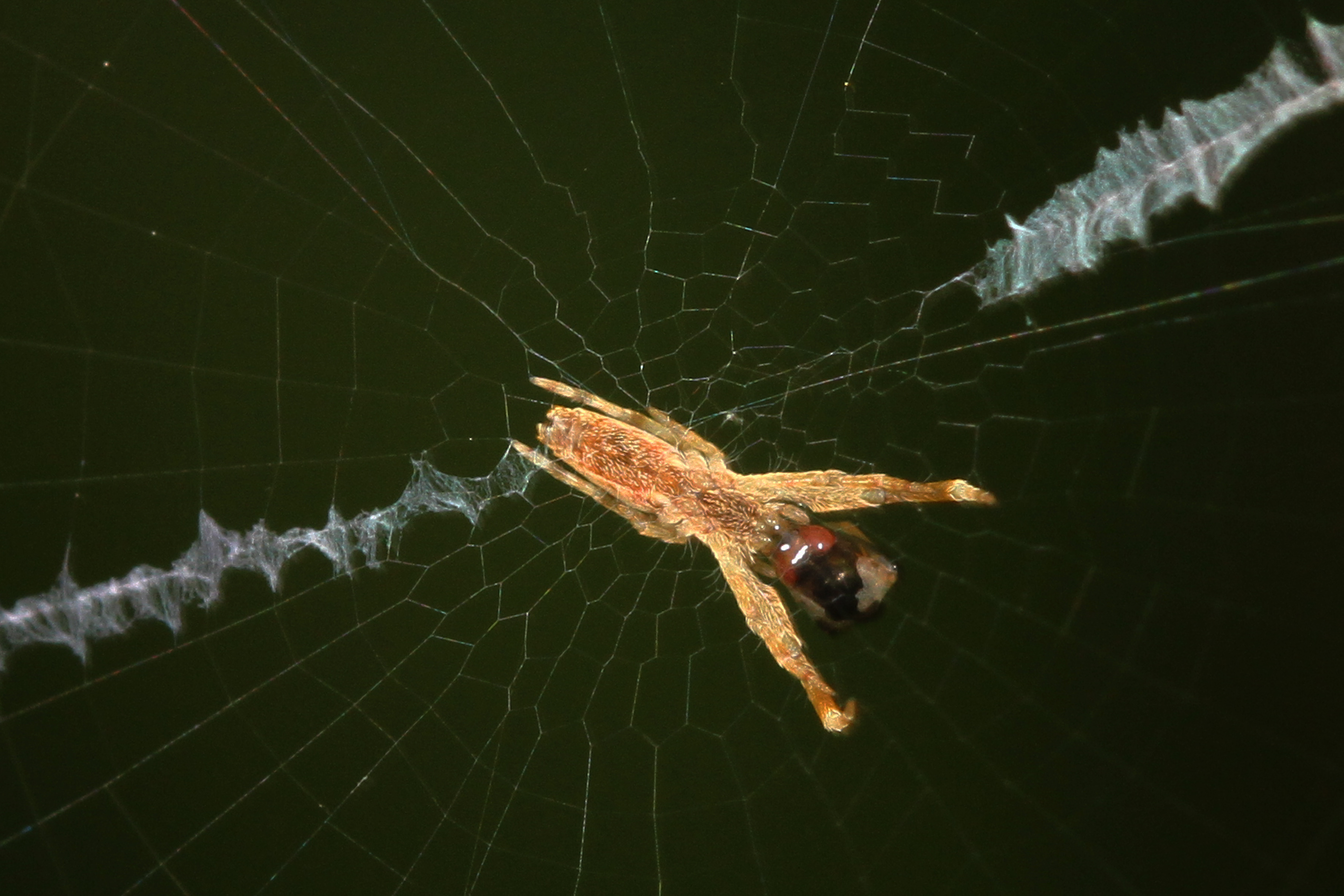 Cribellate Orbweaver - Uloborus glomosus - Julie Metz Wetlands, Woodbridge, Virginia